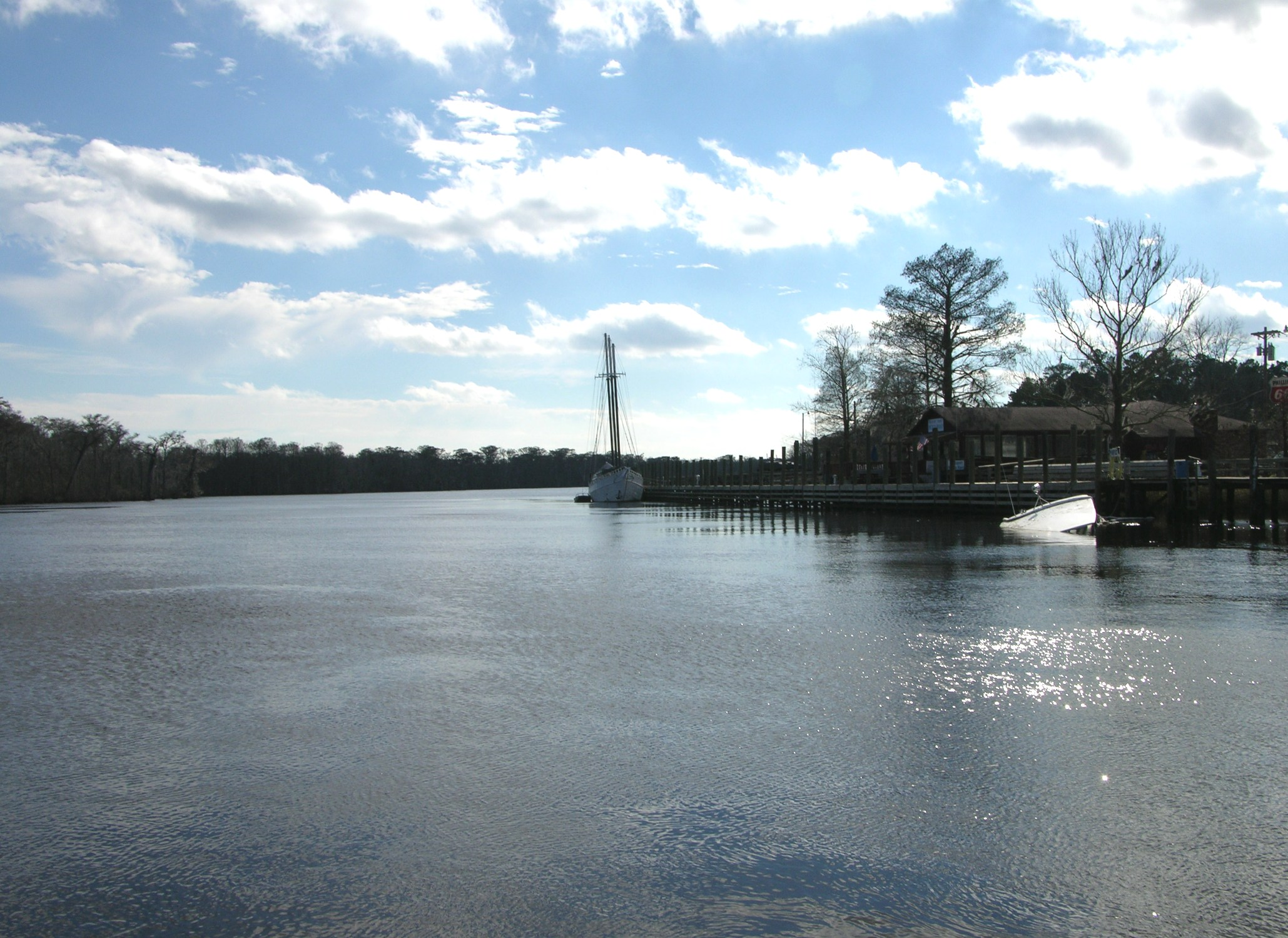 Bucksport, South Carolina - A busy spot on the Intracoastal Waterway/Waccamaw River in spring and fall, when boating snowbirds are moving north and south. Bucksport, South Carolina - A busy spot on the Intracoastal Waterway/Waccamaw River in spring and fall, when boating snowbirds are moving north and south.